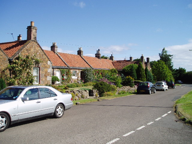 Drem. These cottages are in the small village of Drem in East Lothian.